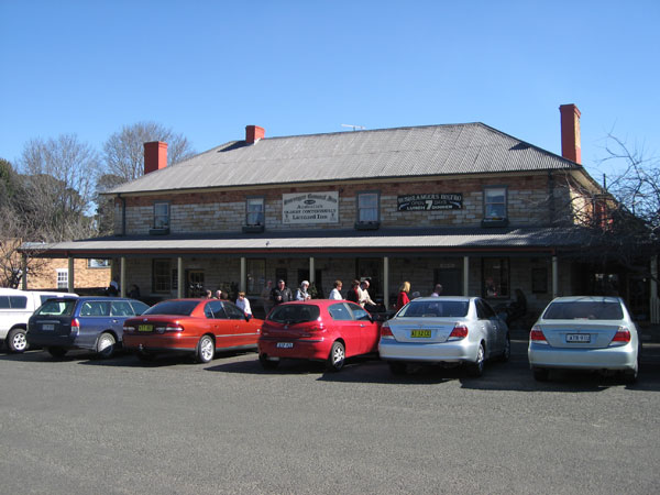 Berrima pub. Berrima, New South Wales